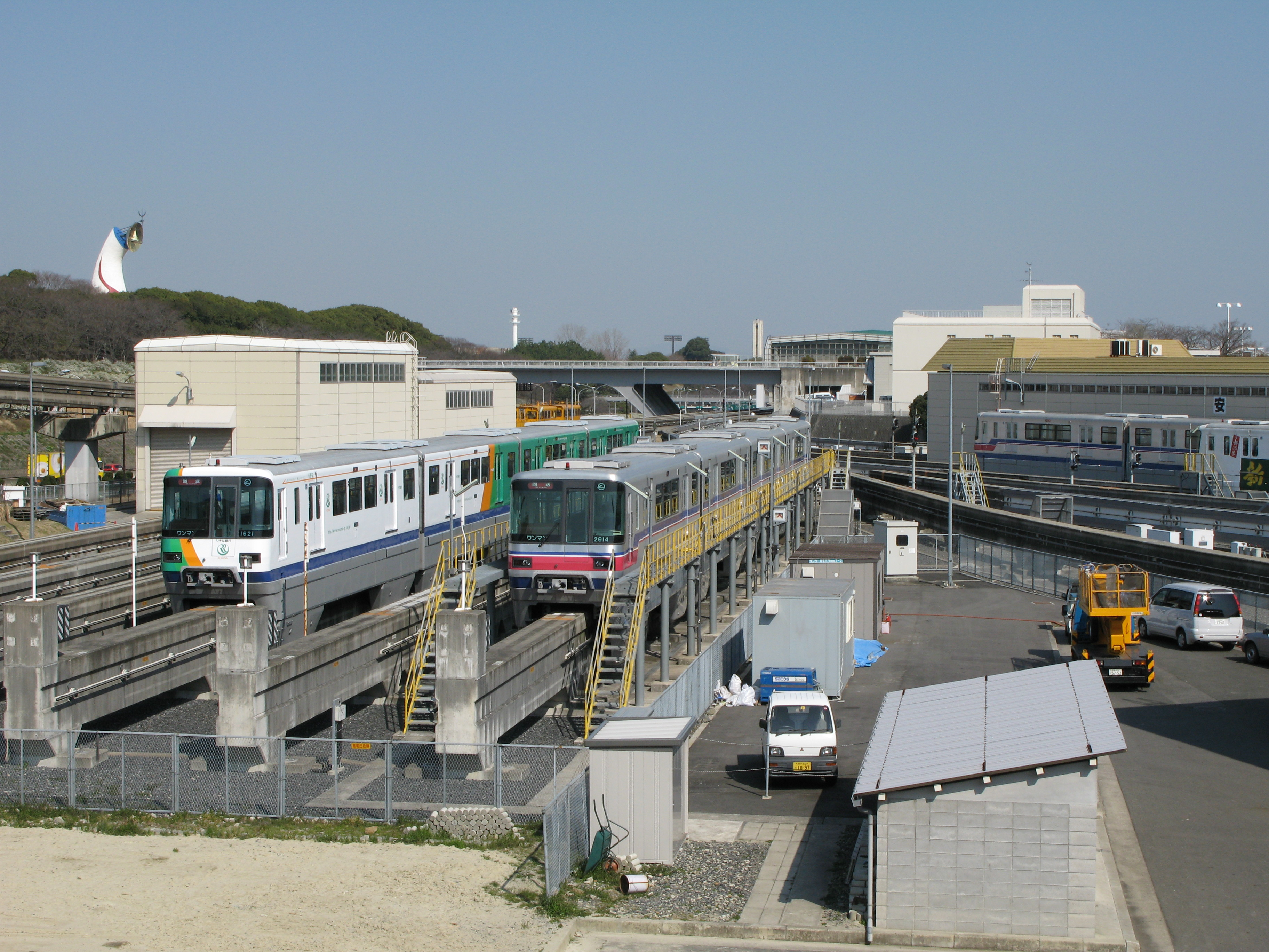 Depot of Osaka Monorail in Suita City, Osaka Prefecture, Japan